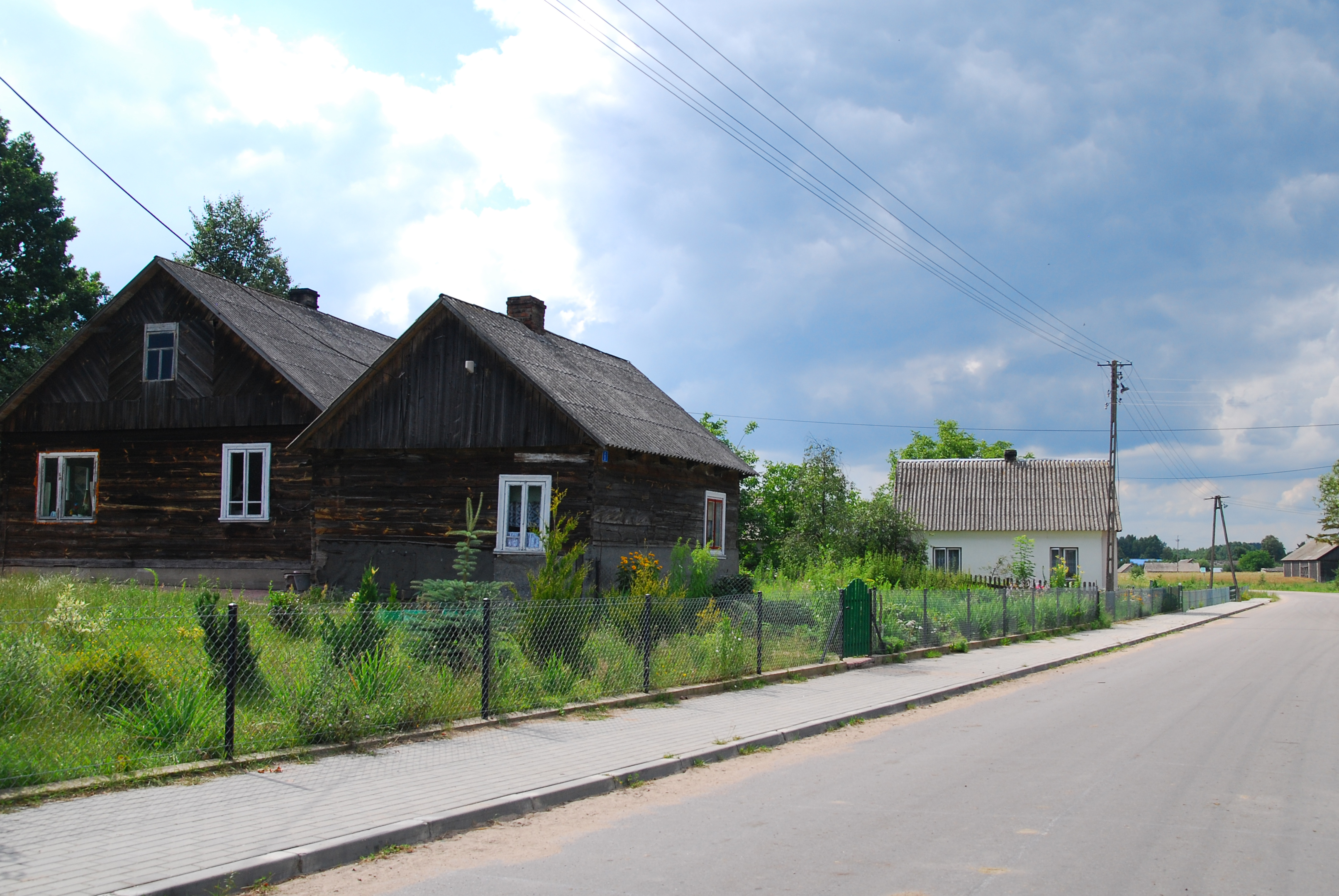 This photo from Podlaskie Voievodeship was taken during Polish Wikiexpedition 2009 set up by Wikimedia Polska Association. The making of this document was supported by Wikimedia Polska. Fragment wsi Choroszczewo